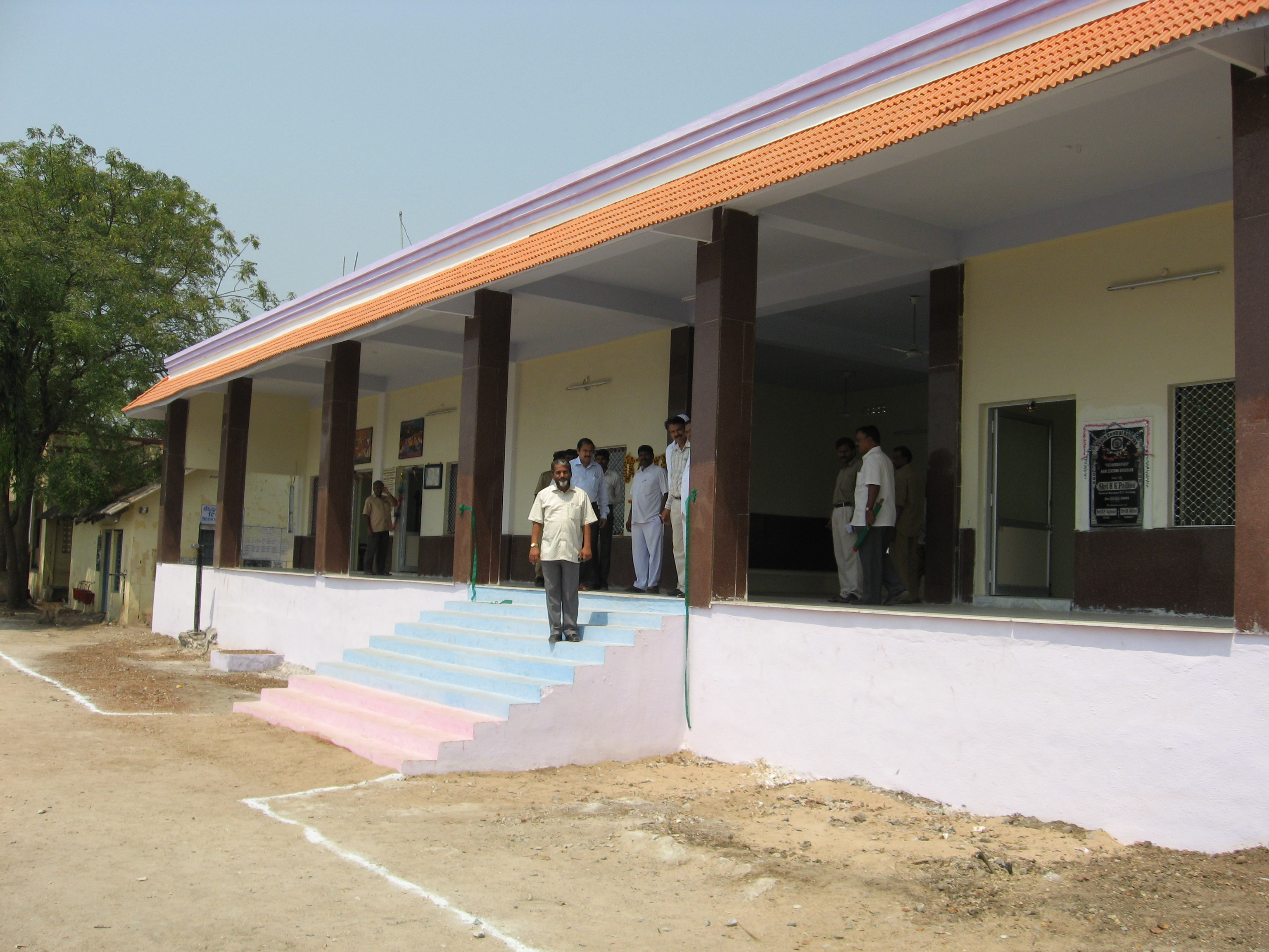 Template:Information The newly built station at Peddakurapadu completed by M.Akhtar,DRM,SCRly,Guntur Division and inaugurated on 5th.March,09.DRM Mr Akhtar can be seen standing in forefront